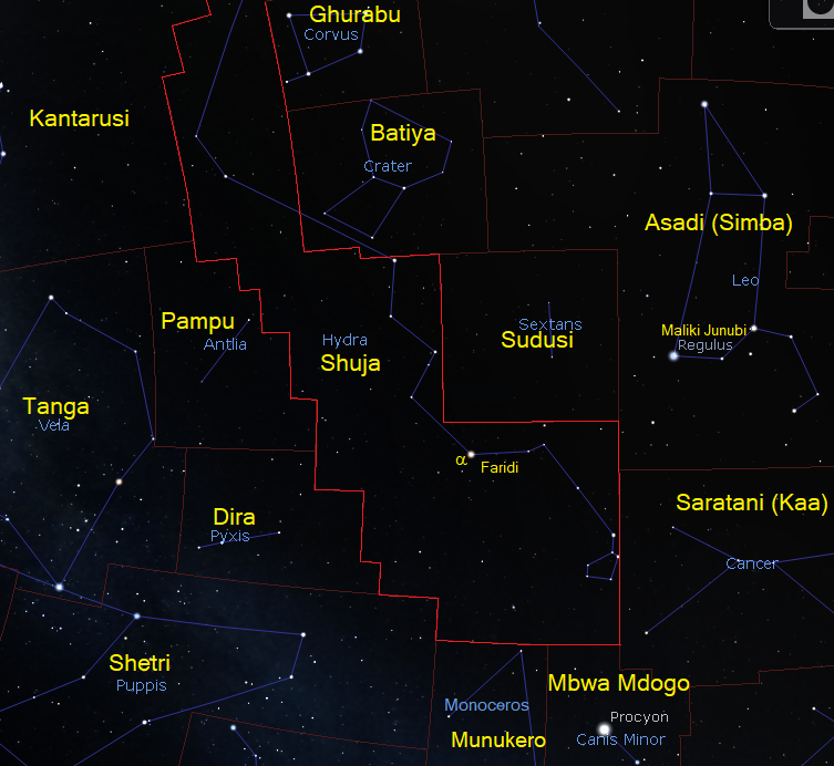 Constellation Hydra as seen from Tanzania, Swahili labelled, close view Kiswahili: Kiswahili: Kundinyota Shuja (Hydra) jinsi inavyoonekana kutoka Tanzania, majina kwa Kiswahili, ndogo